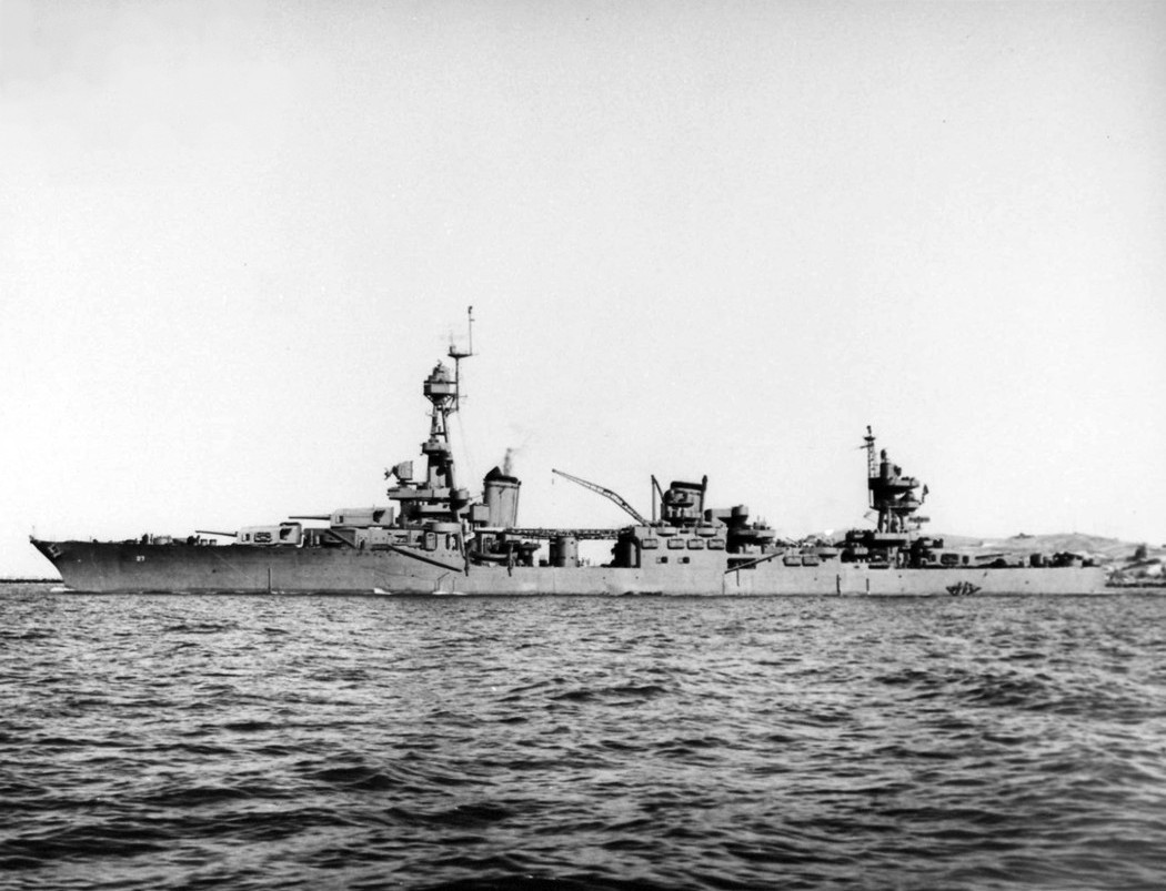 The U.S. Navy heavy cruiser USS Chester (CA-27) off the Mare Island Navy Yard, San Francisco, California (USA), on 2 October 1943. She was in overhaul following torpedo damage at the shipyard from 15 September until 2 October 1943.